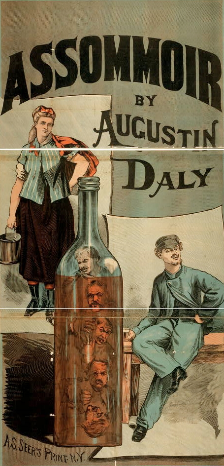 Color woodcut poster for an adaptation of Émile Zola's novel L'Assomoir by American theatre manager Augustin Daly (1838-1899).